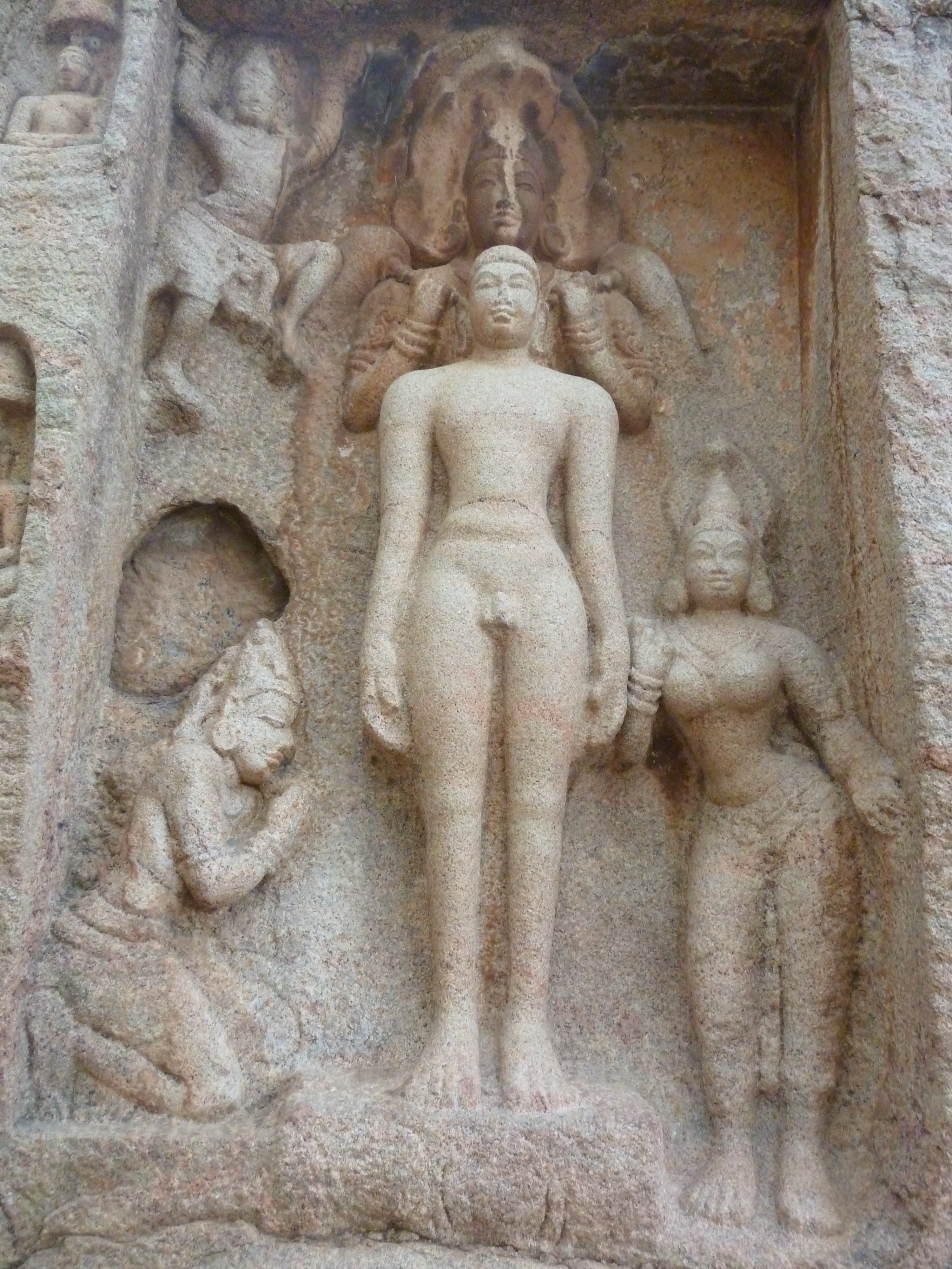 The image portrays the Pārśvanātha Jina sheltered by his attendant deity Dharaṇendra, The sculpture is rare as it presents the serpent king in semi-human form rather than as a canopy of cobra hoods over the Jina’s head. In the upper left corner a demon called Śaṁbara (or Meghamālin) tries to disrupt the Pārśvanātha's meditation by hurling a boulder at him. Source for the description of the image:DEMARCATING SACRED SPACE: THE JINA IMAGES AT KALUGUMALAI